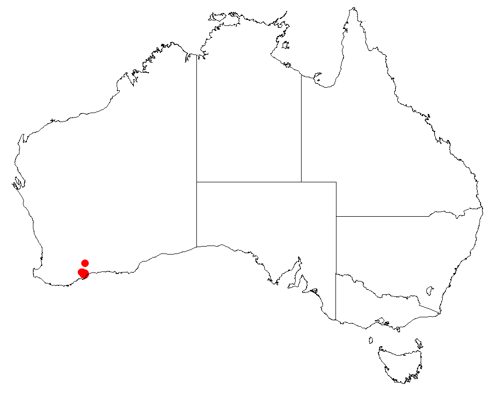 Bossiaea oxyclada Occurrence data downloaded 11 September 2018 from AVH